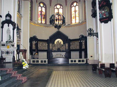 Altar of St. Anthony of Padua, Basilica in Katowice Panewniki, Poland.